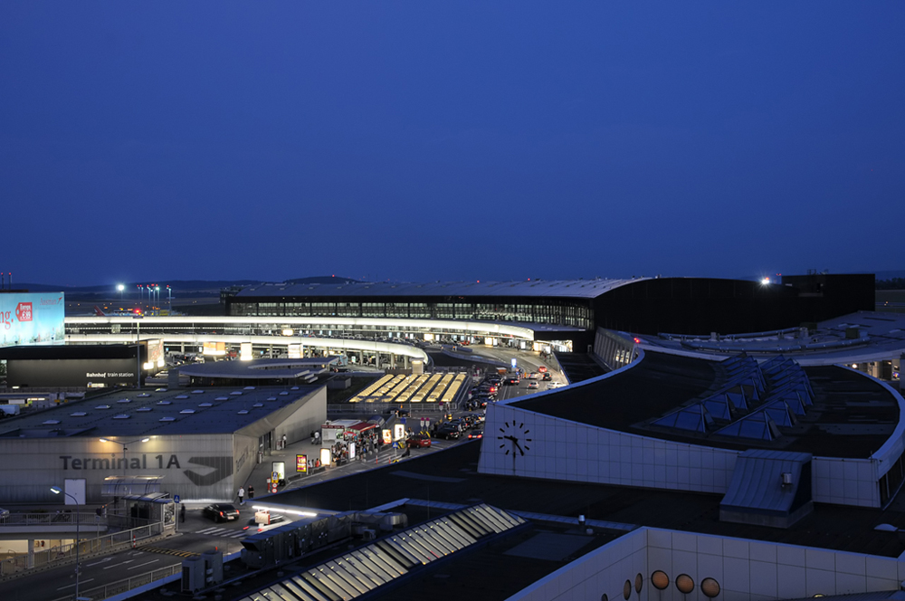 Overview of all Terminals of Vienna International Airport. Starting on the lower right corner Terminal 1, Terminal 2 (Check-in 2), Terminal 3 (Check-in 3). Lower left corner Terminal 1A (Check-in 1A)